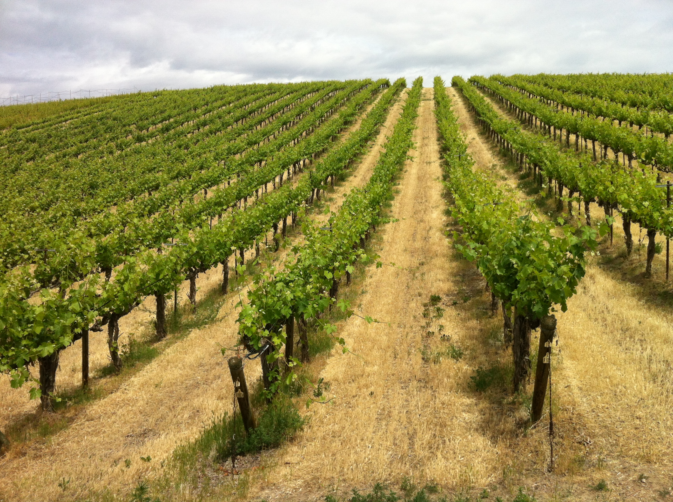 The first planting of Syrah in Washington state at Red Willow Vineyard in the Washington wine region of the Yakima Valley.